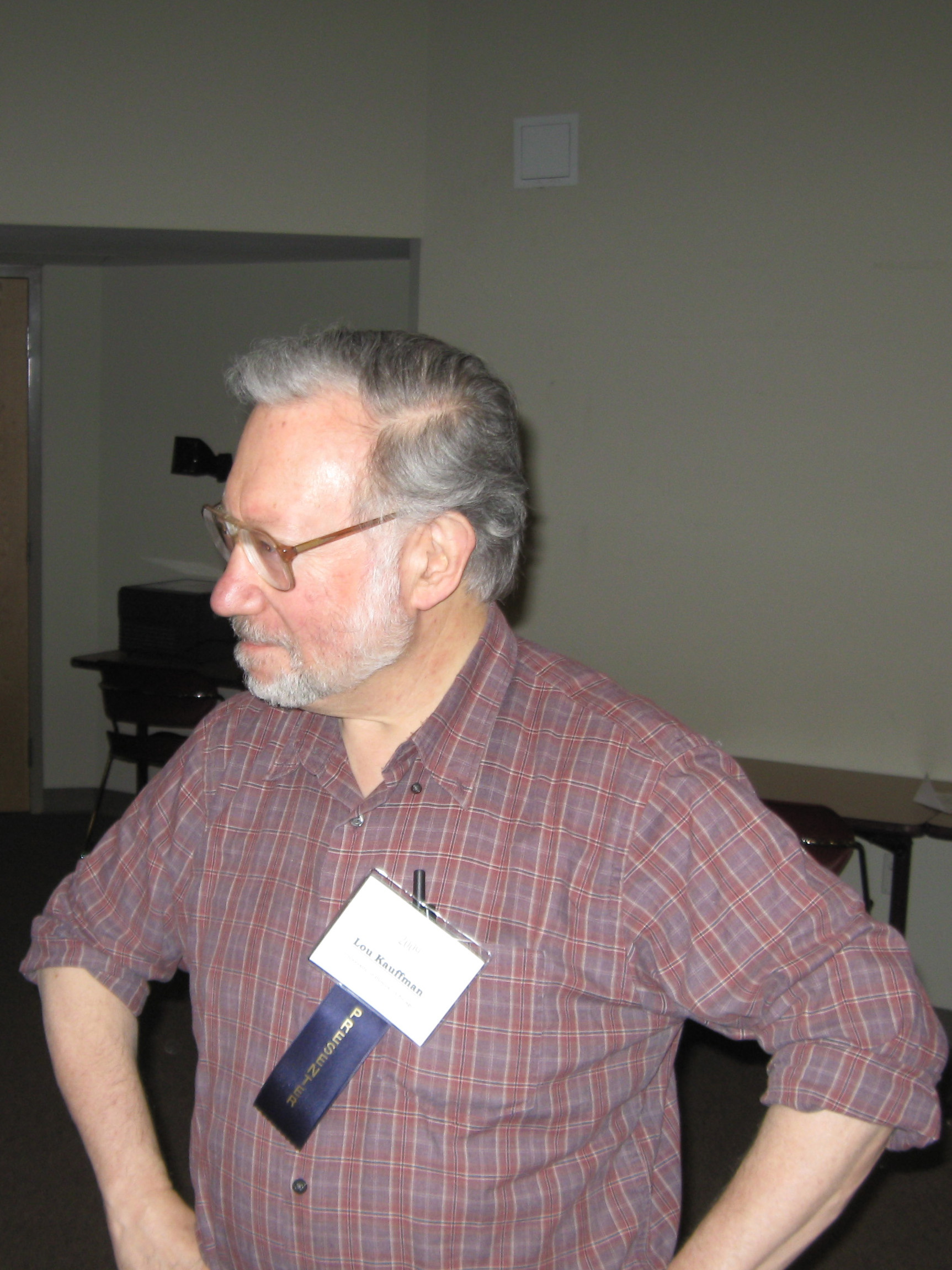 Louis H. Kauffman, Professor in the Department of Mathematics, Statistics and Computer Science at the University of Illinois at Chicago. Photographed at Western New Mexico University in Silver City, New Mexico, April 2009.